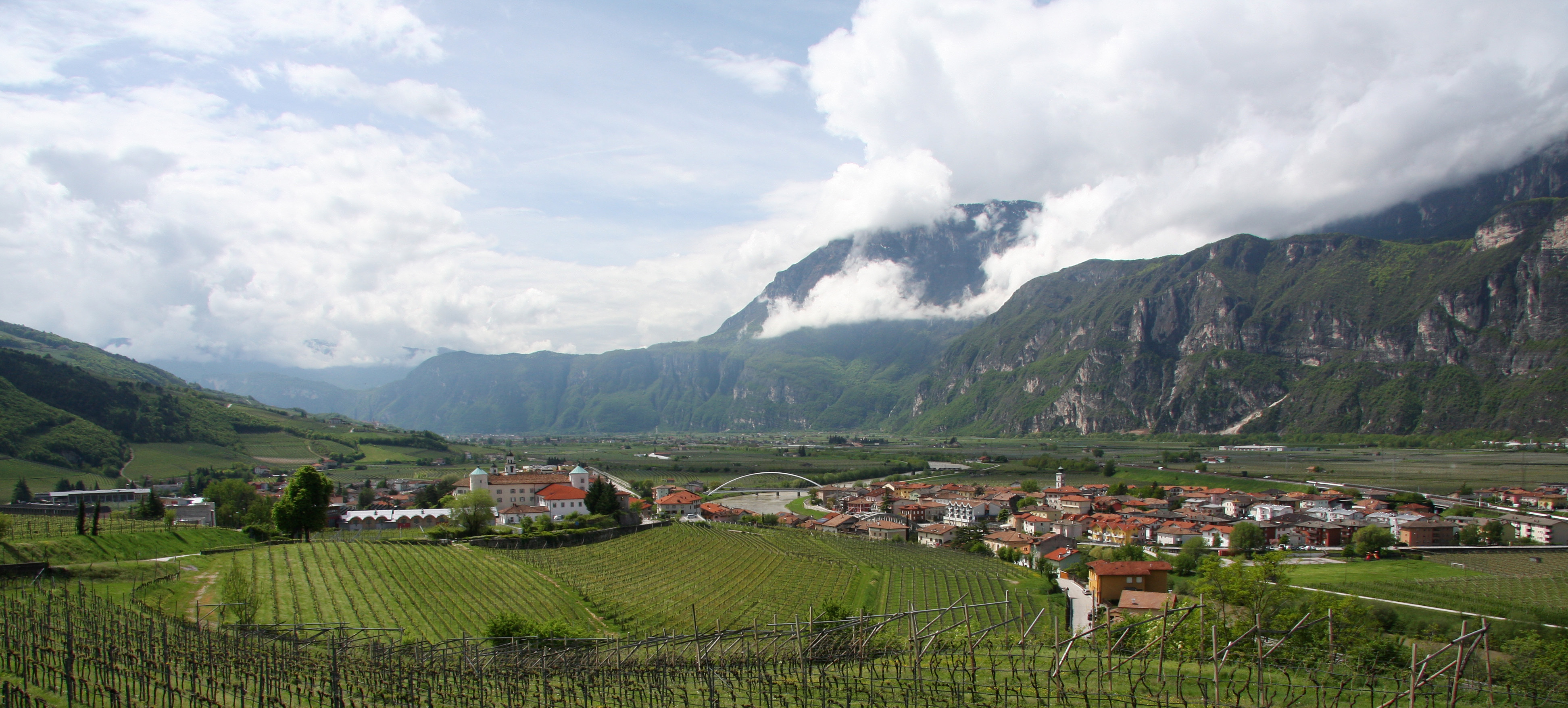 San Michele all'Adige (TN), Italy, from north - In the wine region of Trentino-Alto Adige/Südtirol.